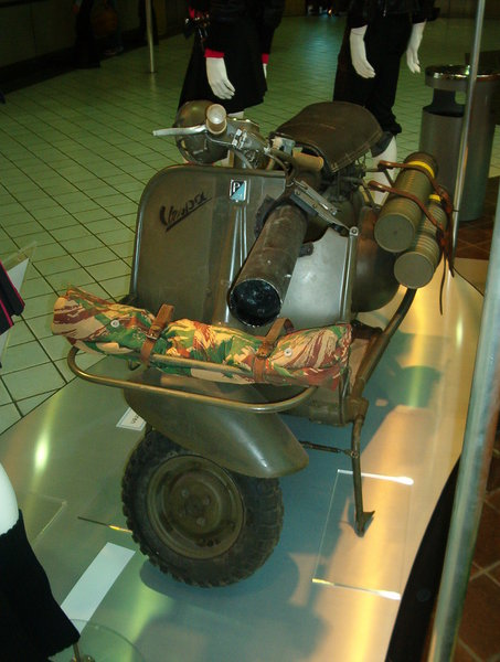 Model AMCA Troupes Aeról Portées Mle. 56 - modified by the French military that incorporated an anti tank weapon.